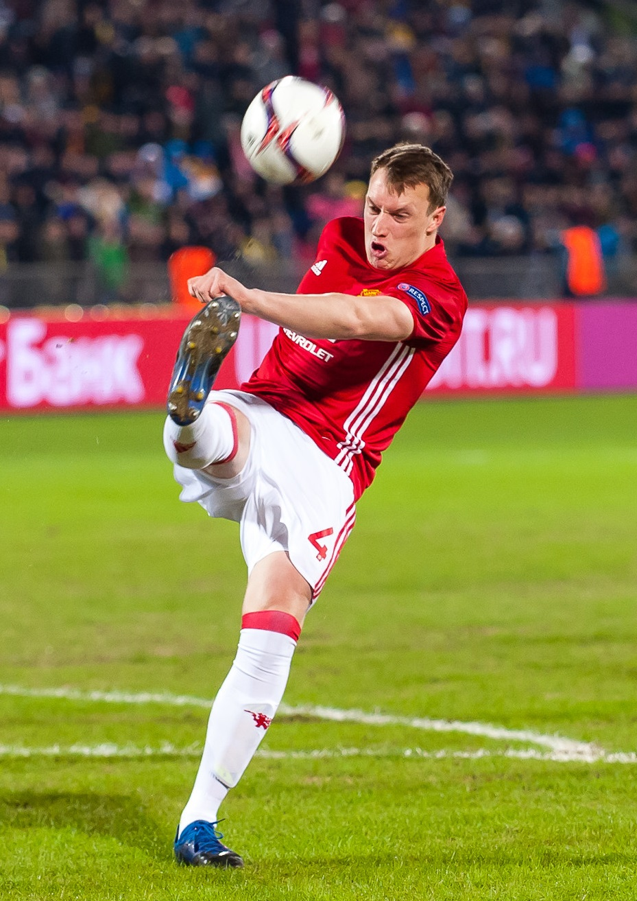 Manchester United footballer Phil Jones in 2017 UEFA Europa league match in Rostov, Russia.